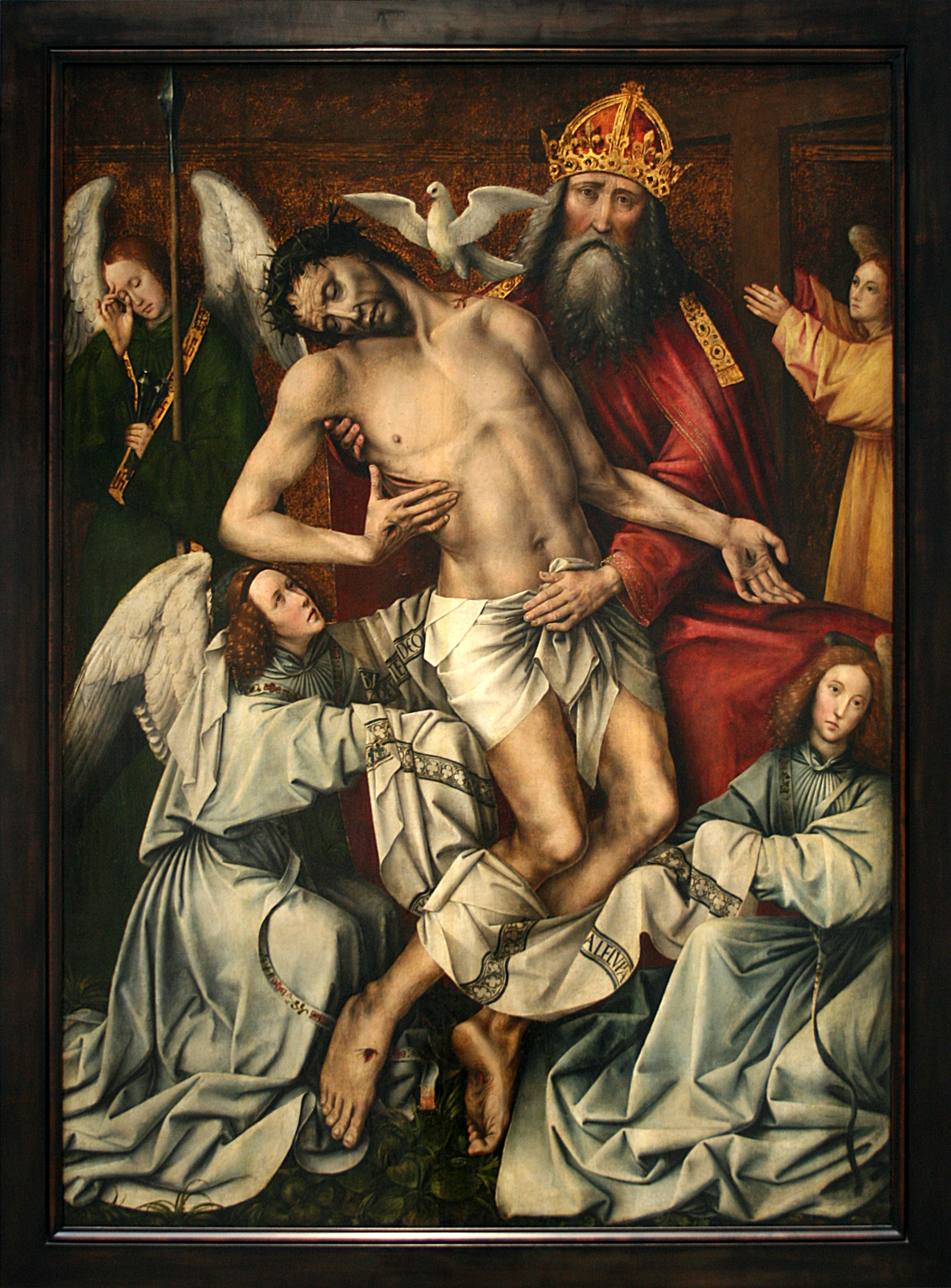 The Holy Trinity, with God the Father supporting Christ (H: 181 cm; W: 133 cm), oil on wooden panel having been part of a triptych, work made in Flanders (Belgium) around 1510-1515 by Colijn de Coter , bought in 1889 by the Louvre (RF 534) and photographed during its exhibition in the Galerie du Temps (December 4, 2012 - December 3, 2013) at the Louvre-Lens (France).